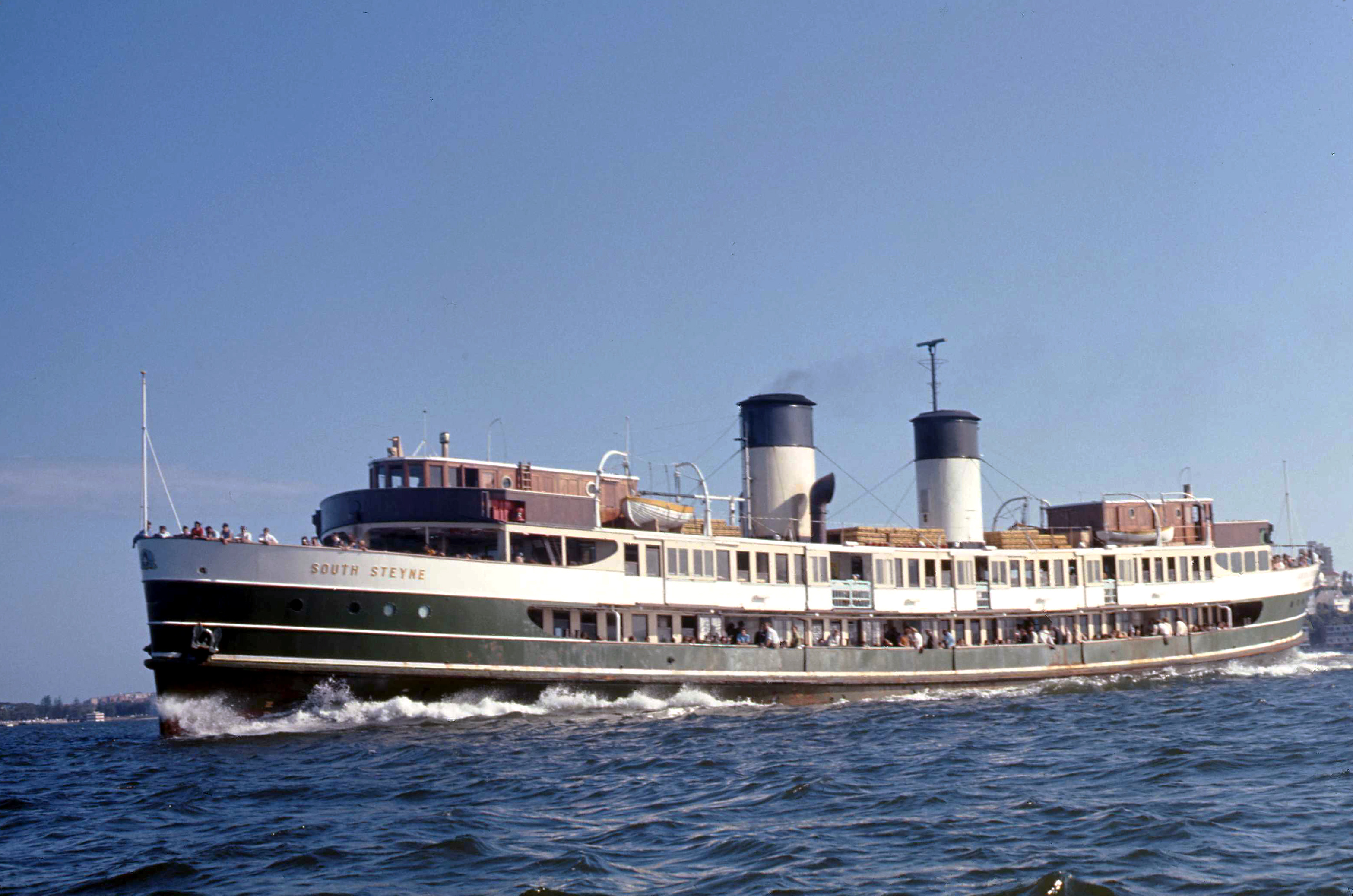 Sydney Ferry SOUTH STEYNE on Sydney Harbour off Point Piper & Rose Bay 1972. John Ward, John Ward Collection - Shipping (17/01/1972), [A-01076510]. City of Sydney Archives, accessed 22 Feb 2020